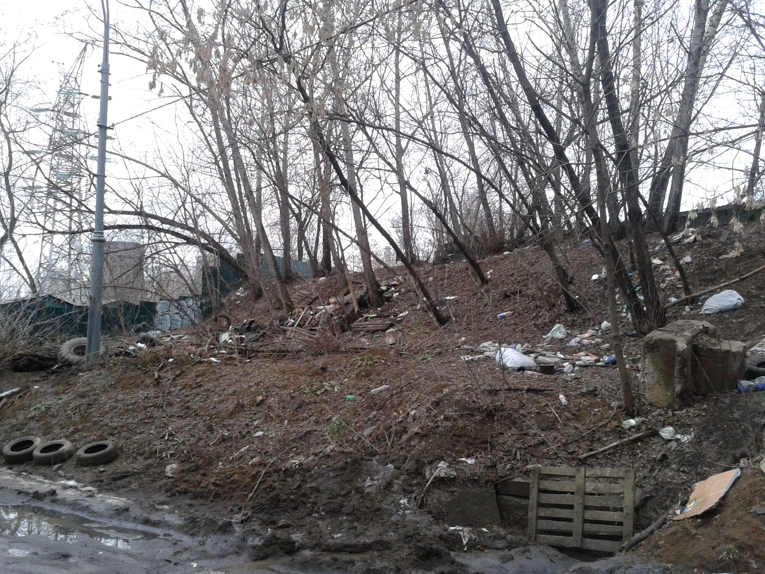 Place in the centre of Moscow, Russia (Khoroshovskoe highway)